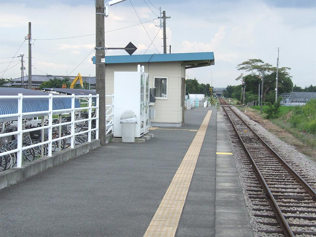 Nishitachiarai Station. Amagi Railway Amagi Line.